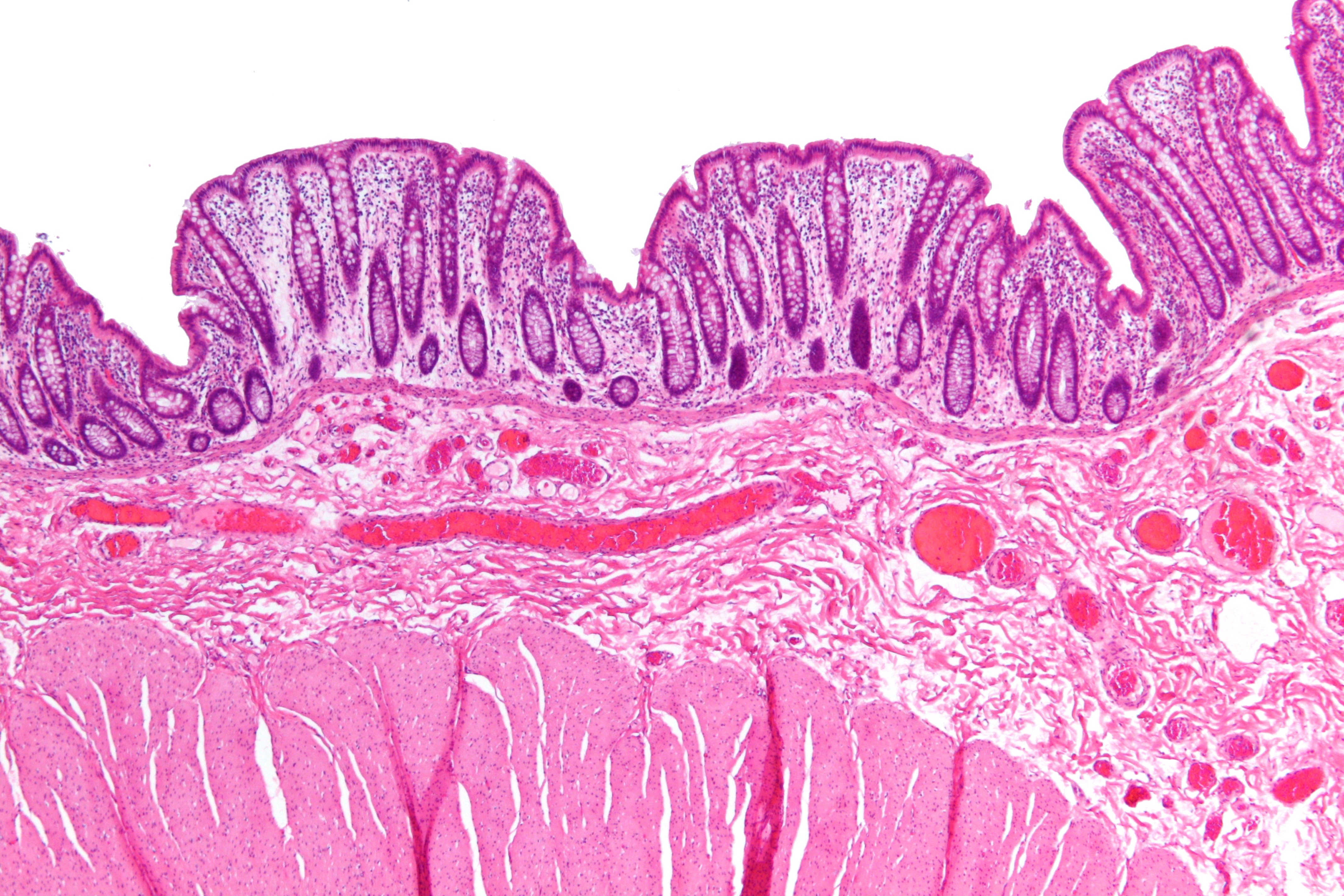 Low magnification micrograph showing microscopic changes consistent with rectal prolapse. H&E stain. The image shows a marked increase of fibrous tissue in the submucosa and fibrous tissue +/- smooth muscle hyperplasia in the lamina propria. Related images Very low mag. Low mag. Intermed. mag.